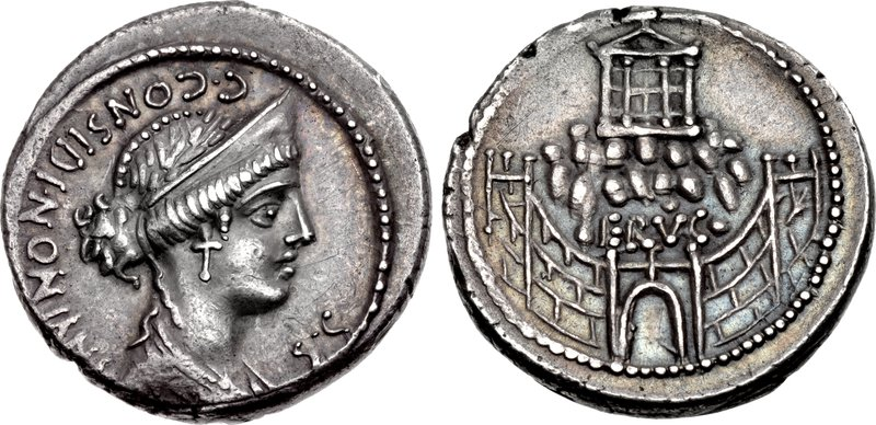 C. Considius Nonianus. 57 BC. AR Denarius (18mm, 3.83 g, 7h). Rome mint. Laureate and draped bust of Venus Erycina right, wearing stephane Temple on summit of rocky mountain surrounded by wall with towers on each side and gate in center; ERYCE above gate. Crawford 424/1; Sydenham 887